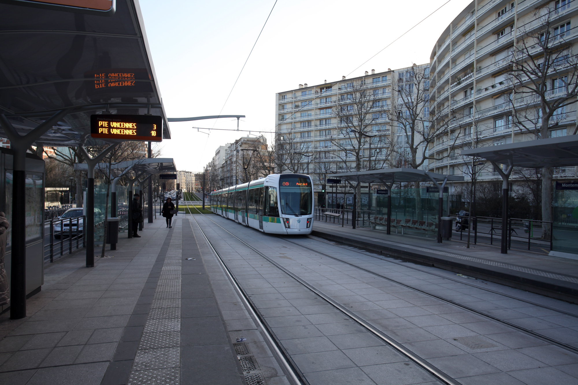 station Montempoivre. Paris Tramway ligne 3a